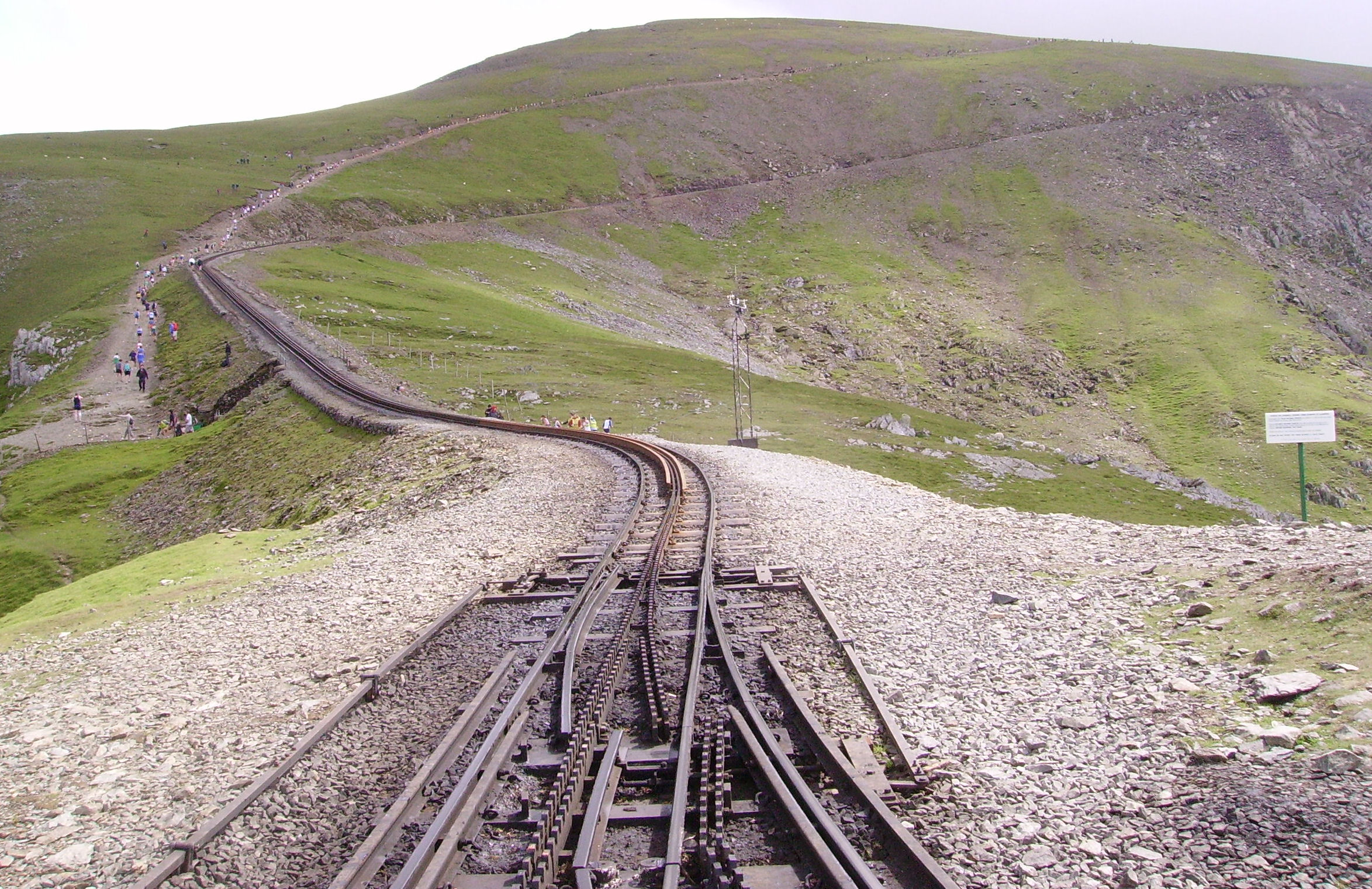 view of Snowdonia in Wales